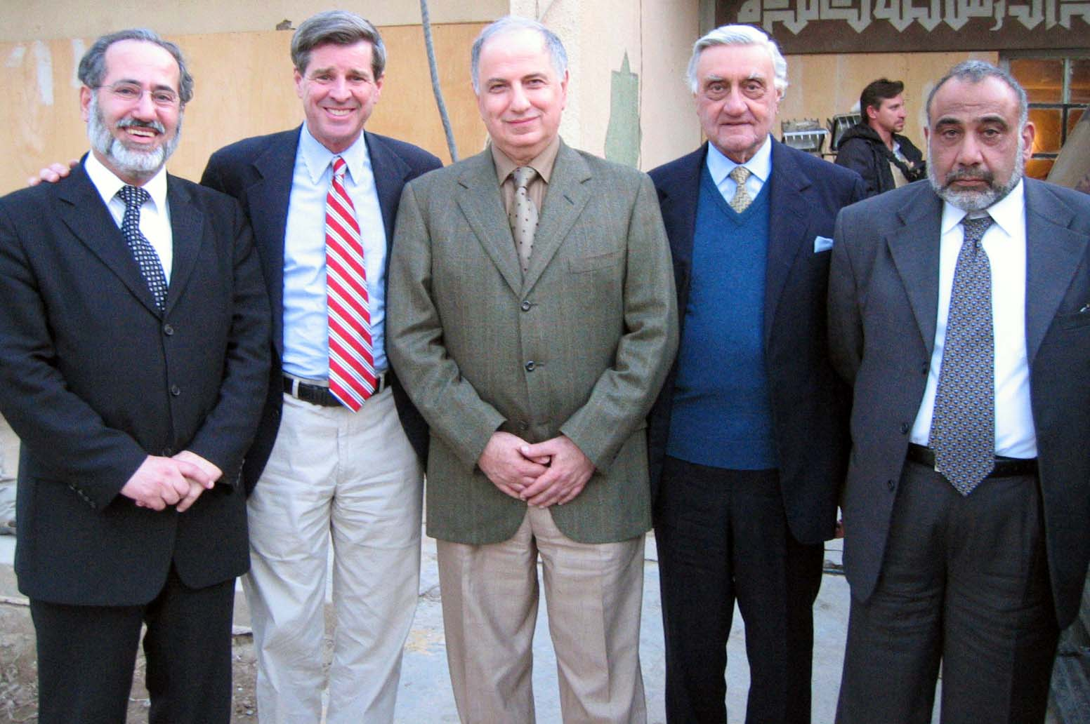 L. Paul Bremer (2nd from left) and members of the Iraqi Governing Council; Mowaffak al-Rubaie, Ahmed Chalabi, Adnan Pachachi, Adil Abdul-Mahdi (Left to Right). Photo taken December 14, 2003.